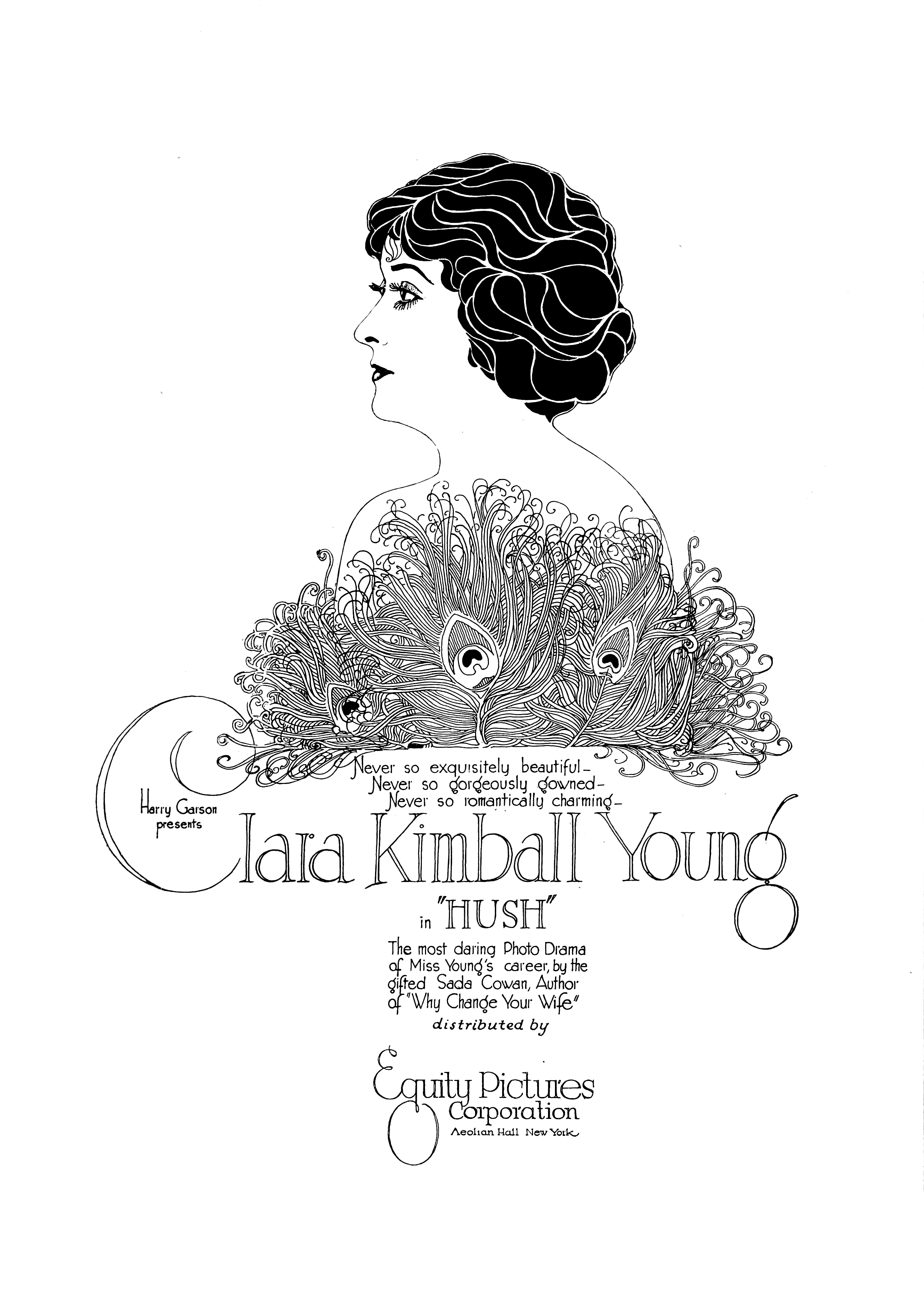 Magazine advertisement for Hush (1921), starring Clara Kimball Young